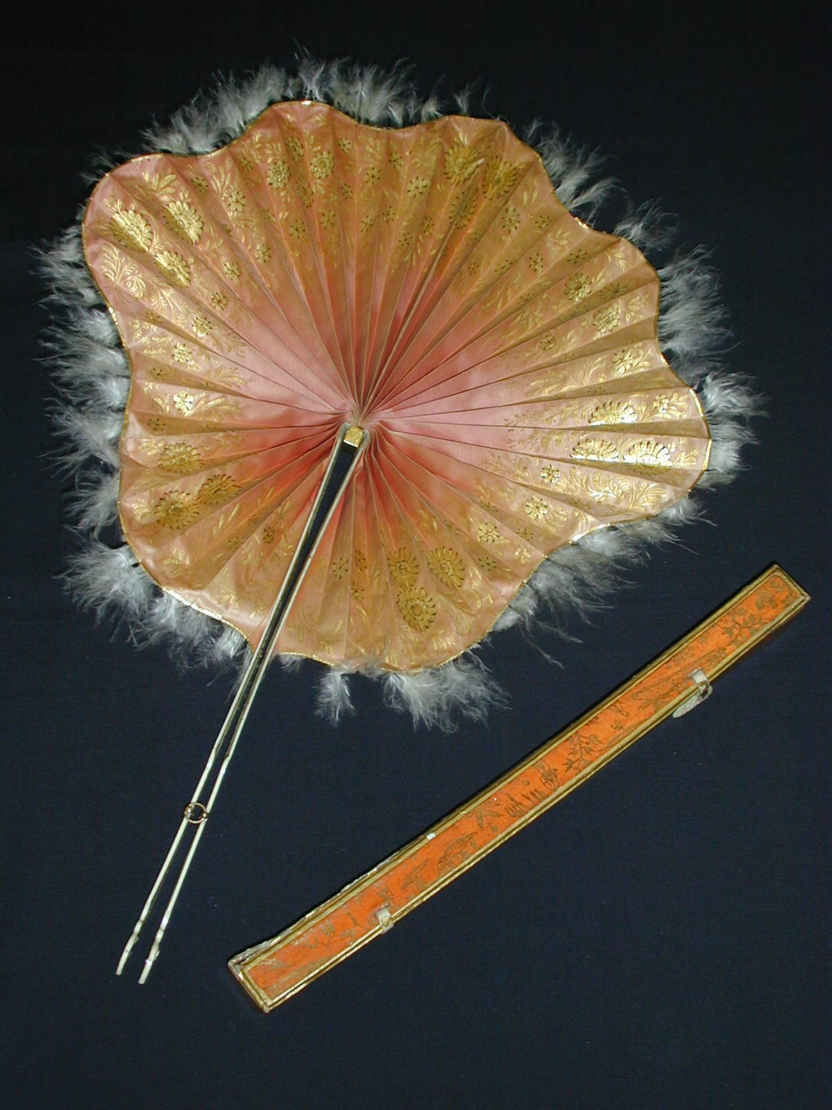 Cockade fan with a pink, shovel-shaped silk leaf painted with gold flowers and edged with white feathers. The ivory guards, which also form the handles when open, are inlaid with gold leaf. The handles are held closed by a gold ring. The top of the fan, which is the centre when open, is protected by a decorative pinchbeck cap. The box is cardboard, the outside decorated with Chinoiserie and held closed by two pieces of ivory.